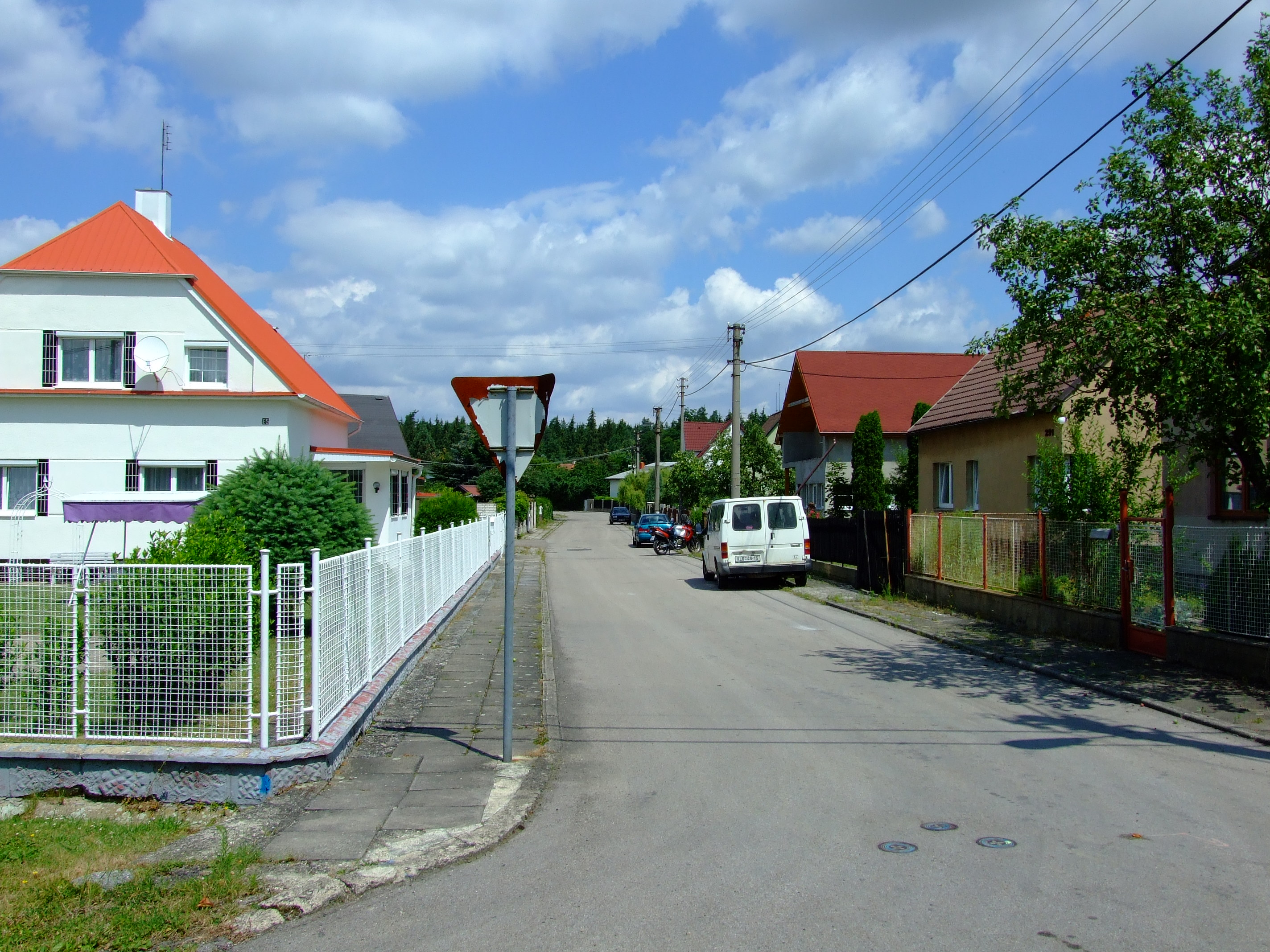 Malé Kyšice village in Central Bohemian region, CZhelp